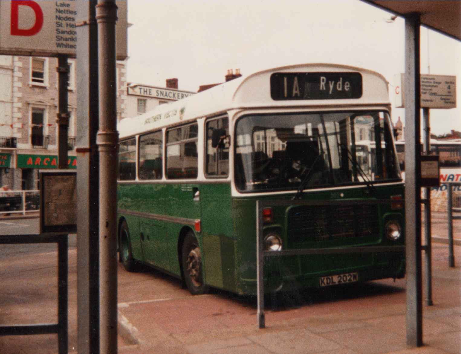 Southern Vectis 202 (KDL 202W), a Bristol LH/ECW, stands at Ryde Bus Station Stand C in June 1987. Usually double deckers were used for the 1A service, however the duplicates which became 1A services to take on rival bus operators were often this type of bus.